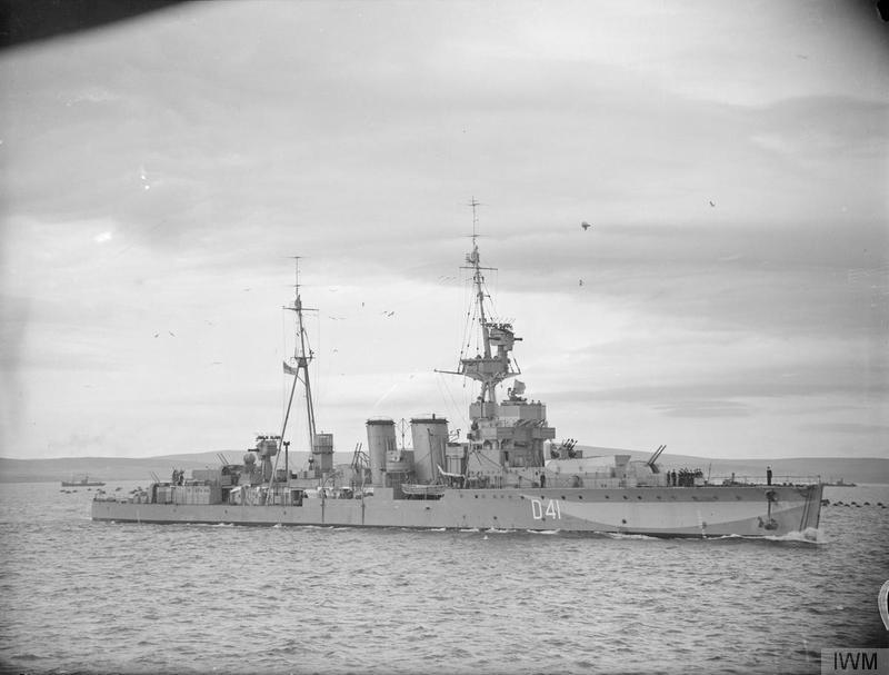 British Warships of the Second World War HMS CURACOA, entering harbour after exercises at sea, configured as an anti-aircraft cruiser.